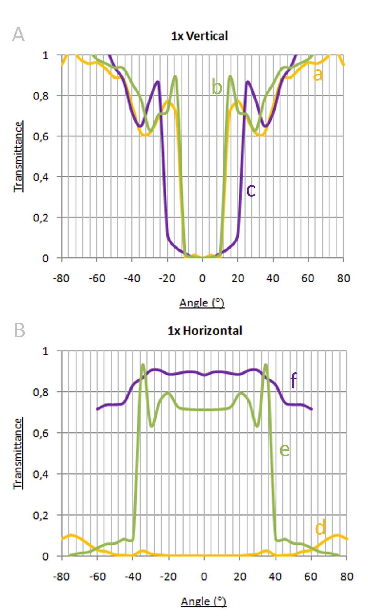 Transmittance of prismatic array for sunlight under seasonal changes